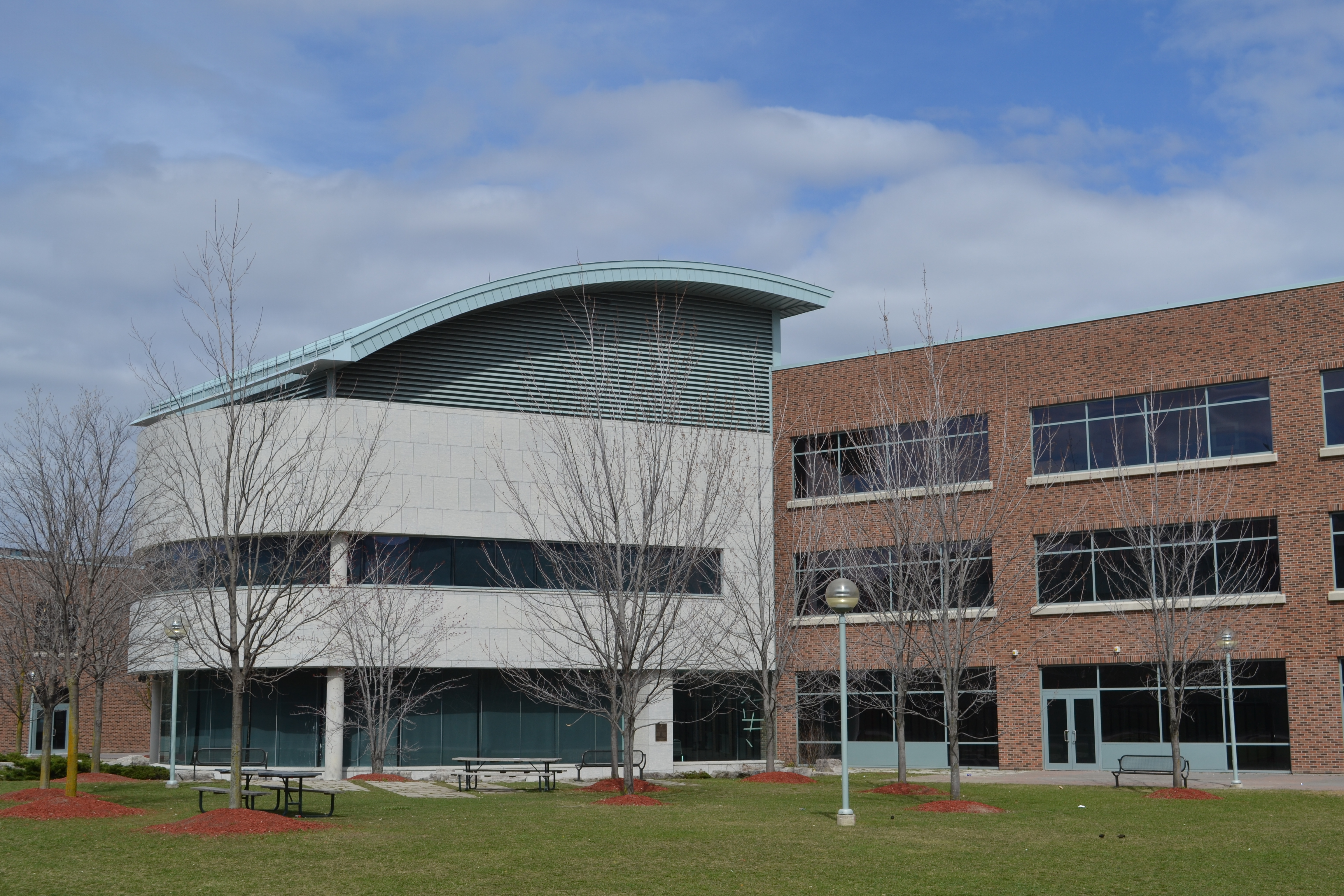 Seneca@York